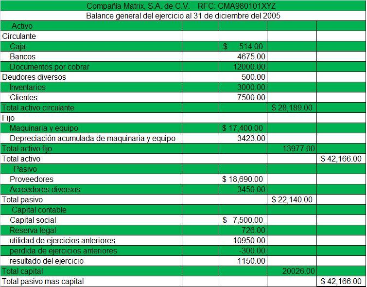 Balance Sheet